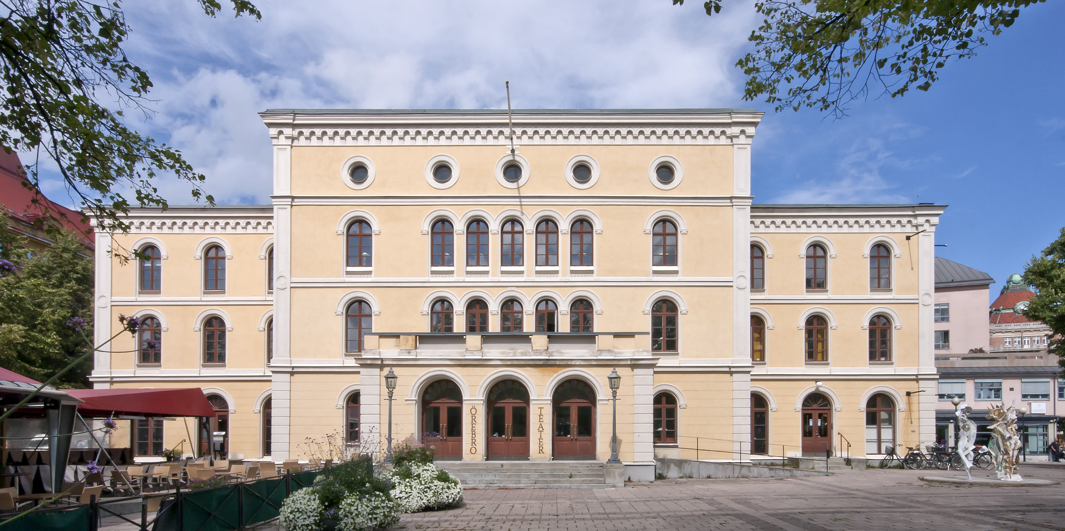 Örebro Theater in Örebro, Sweden.